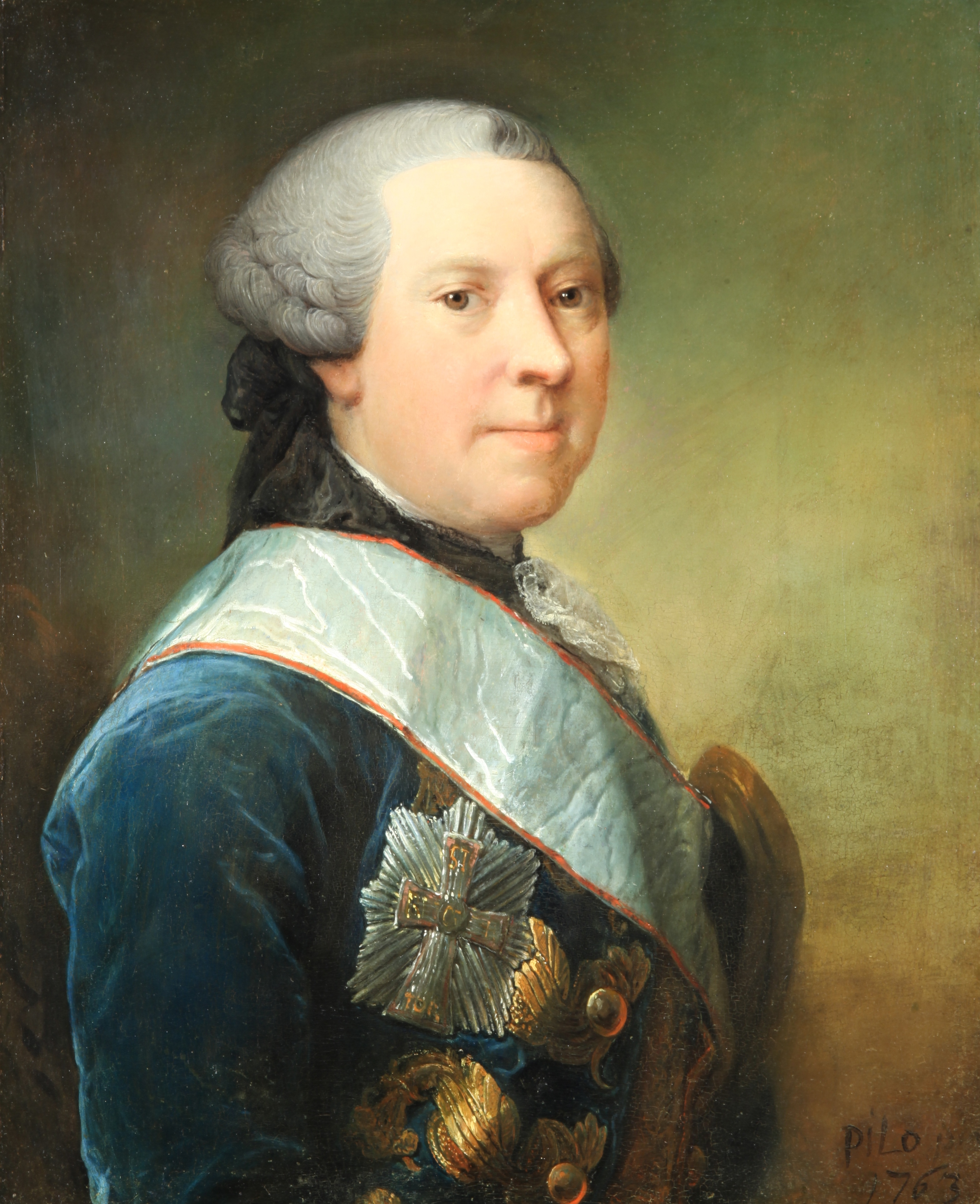 A painting of Christian Conrad Danneskiold-Laurvig (1723-1783), made by Carl Gustav Pilo (1711-1793).